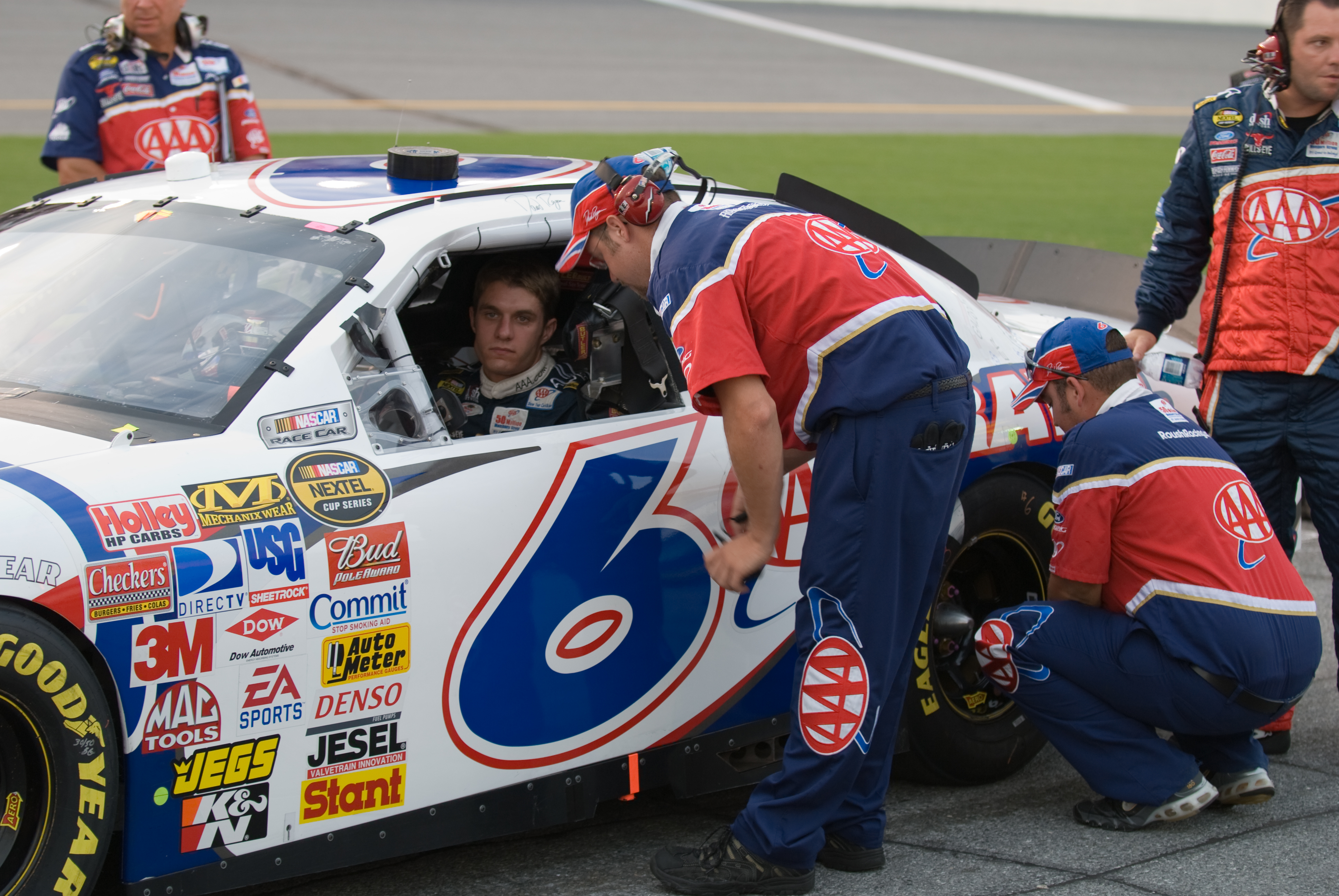 David Ragan